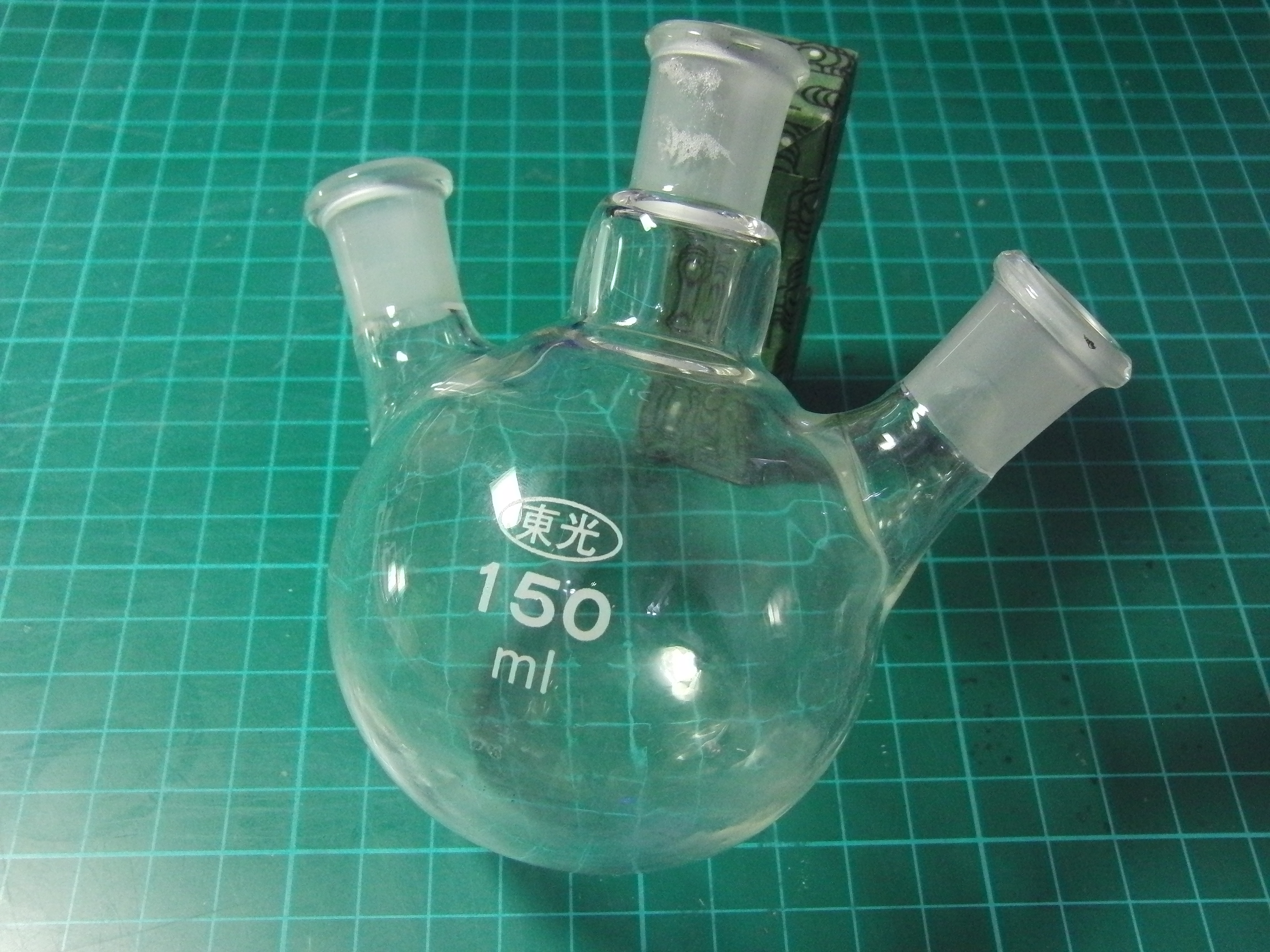 three-neck round-bottom flask